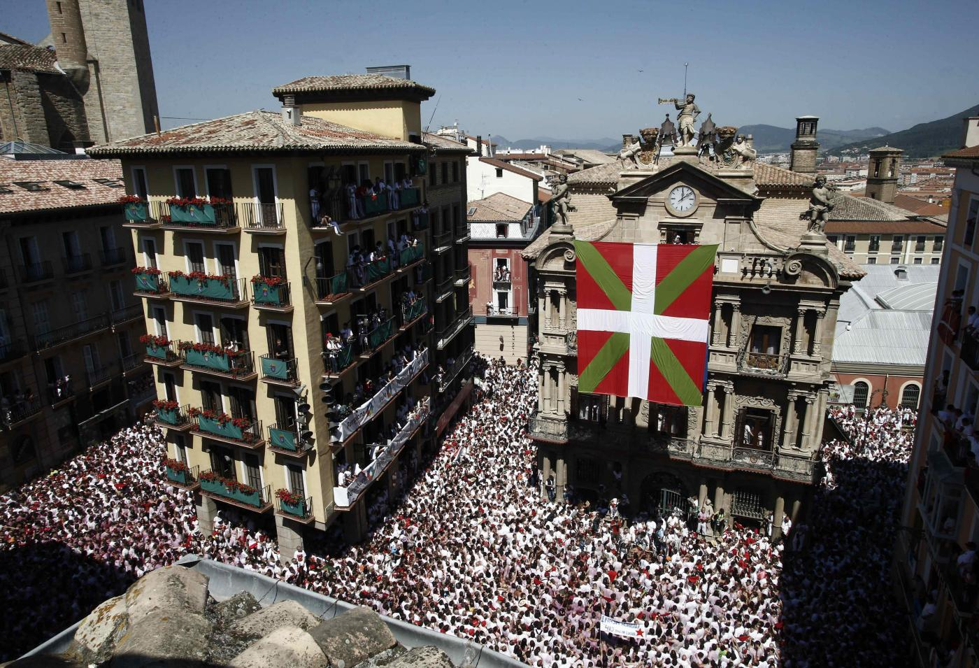 Ikurrina or Basque Flang in 2013 San Fermin Festival's txupinazo, Navarre, Basque Country